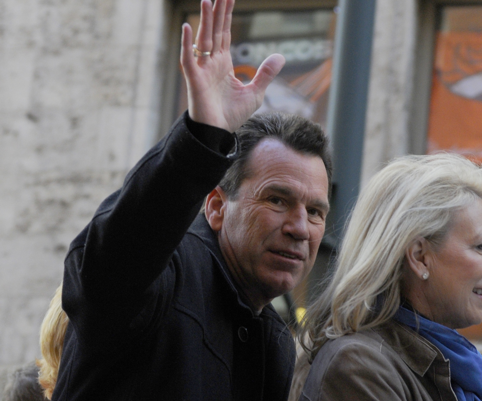 Broncos coach waving at Super Bowl 50 parade